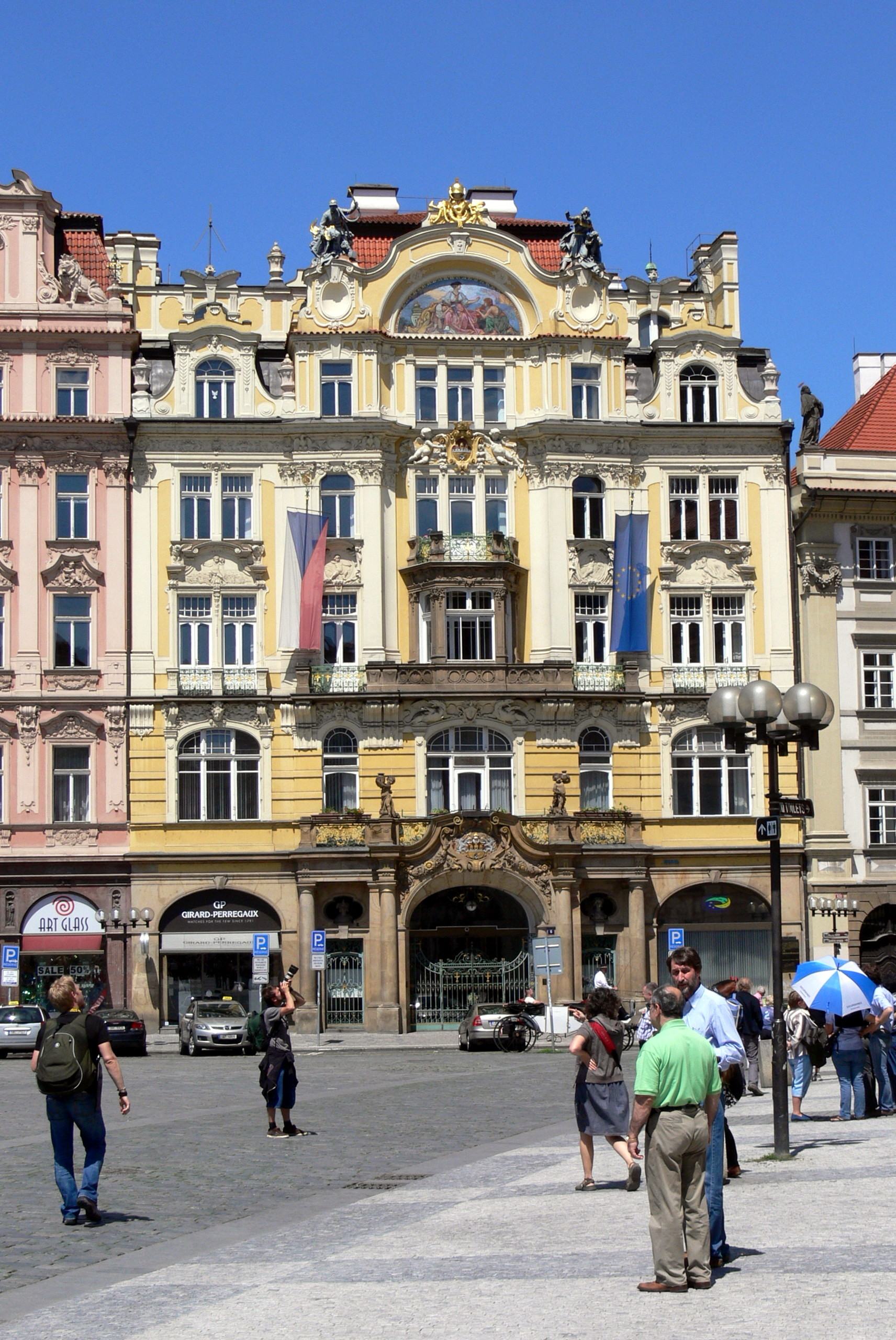 Old town square ( Prague ). Ministery for urban development, built in 1898 by Oskar Polivka.